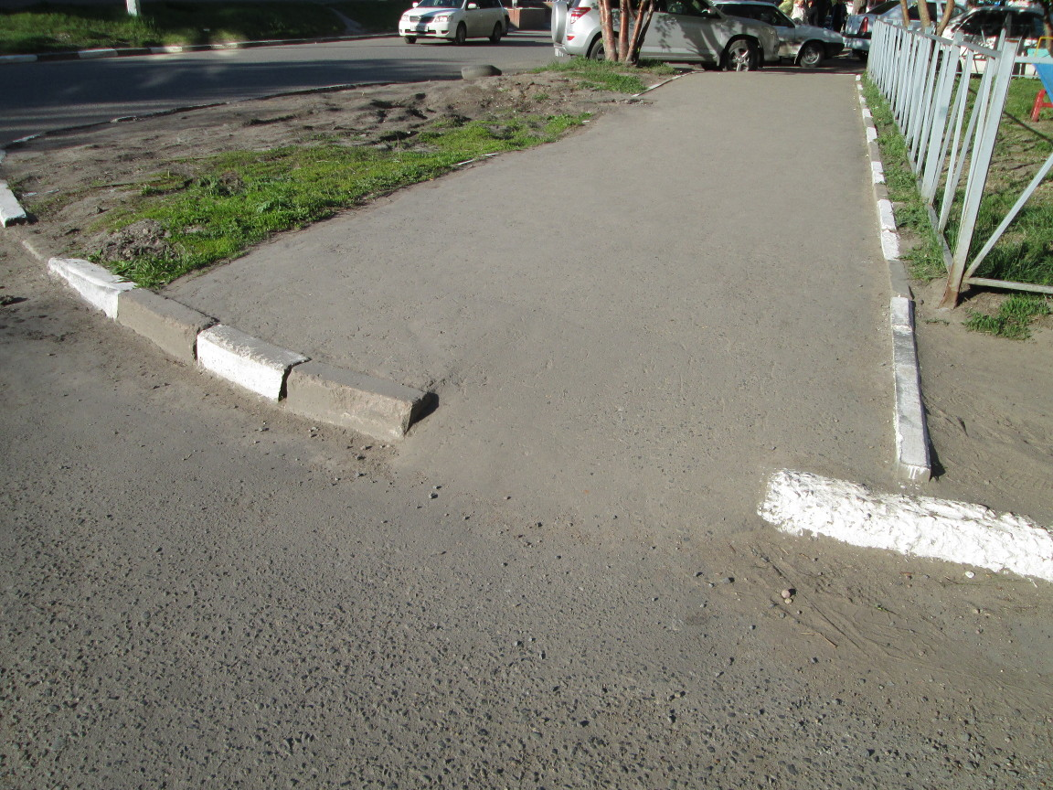 Example of creating a barrier-free environment in the post-Soviet space (Omsk, 2016).